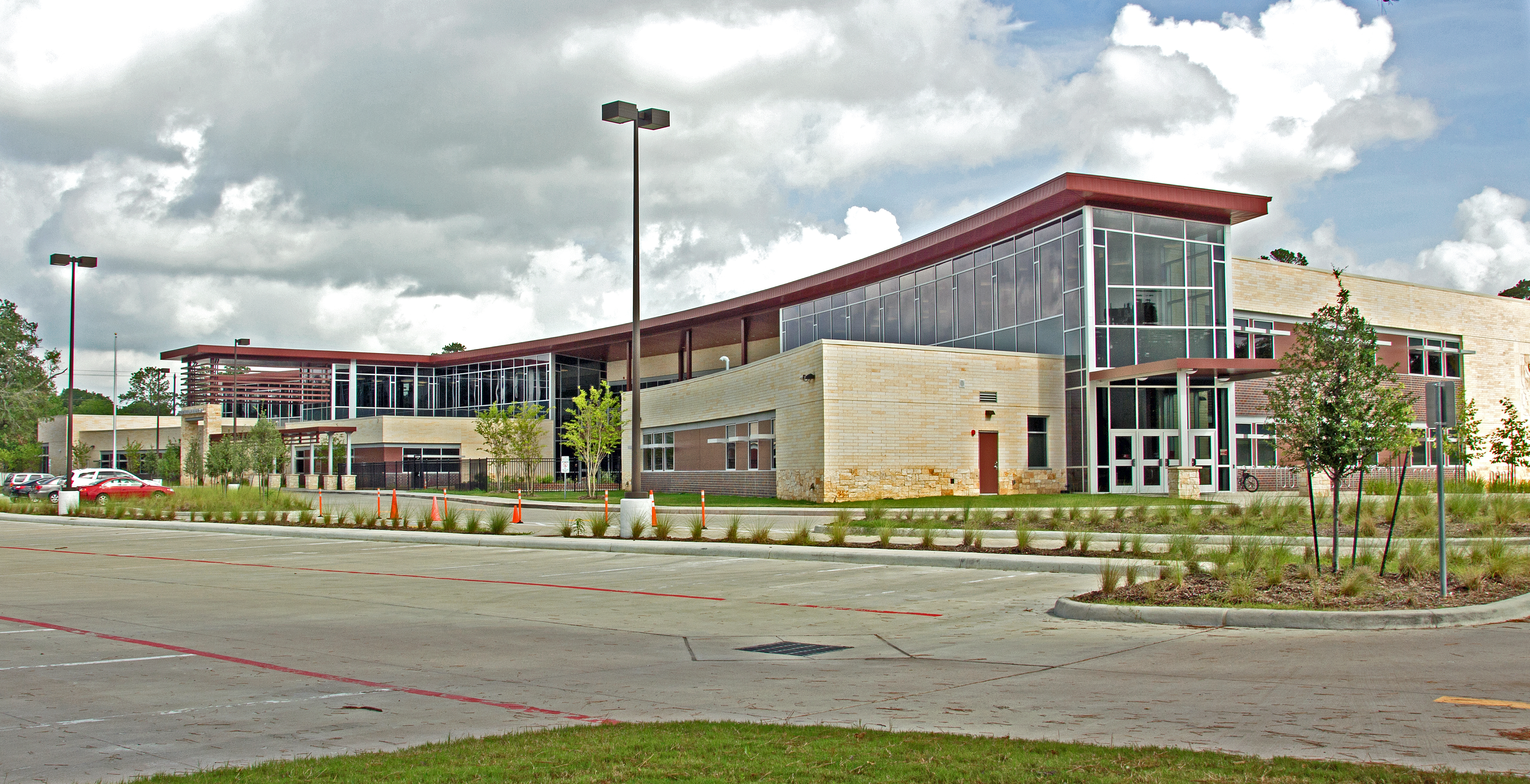 Frostwood Elementary School, opened in January 2014